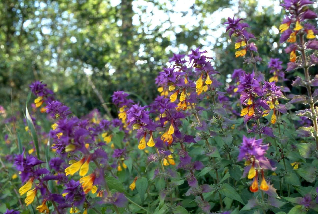 Flowering Melampyrum nemorosum at a wayside.